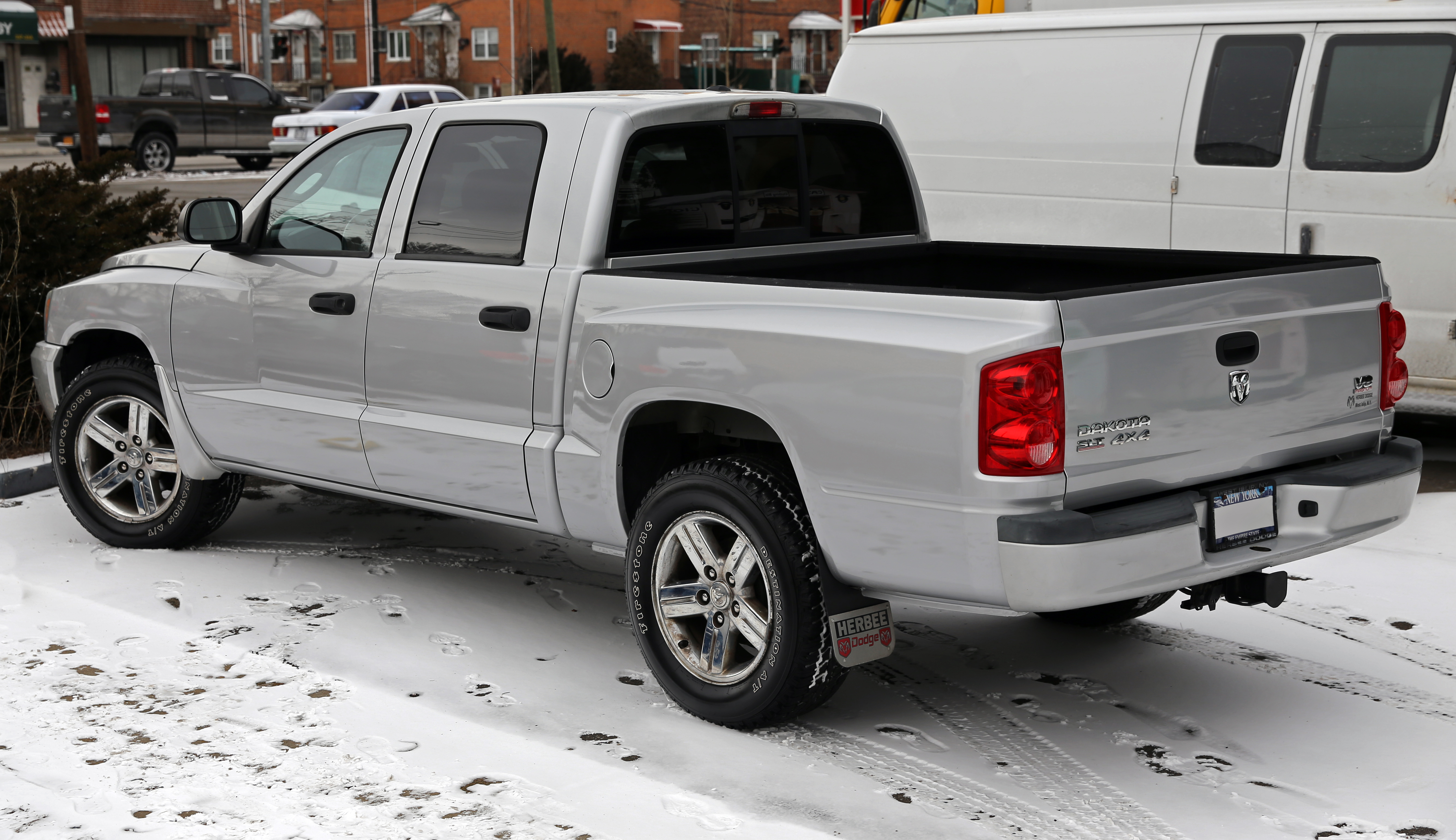 2007 Dodge Dakota SLT 4x4 Crew Cab, fitted with a 4.7 litre EFI V8 and built at Chrysler's Warren (MI) truck assembly plant. 6-7000 lb GVWR.